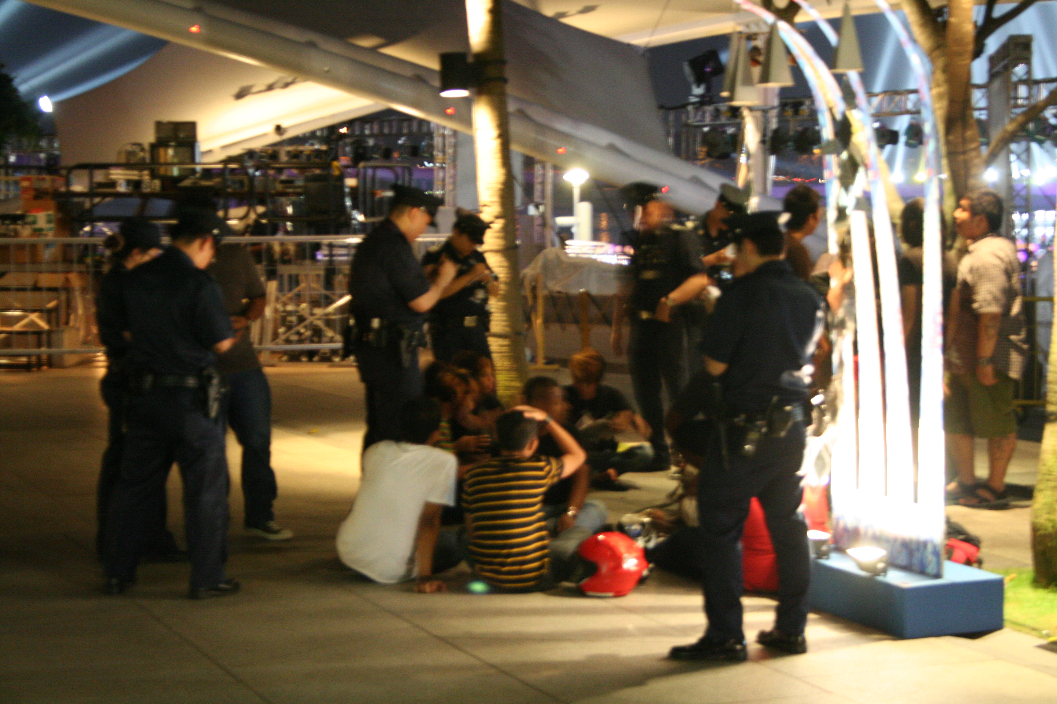 Singaporean policemen with a band of teenagers